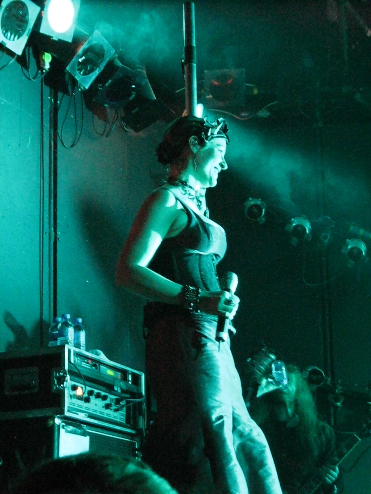 Therion at The Fridge in Brixton, 2007-12-16.